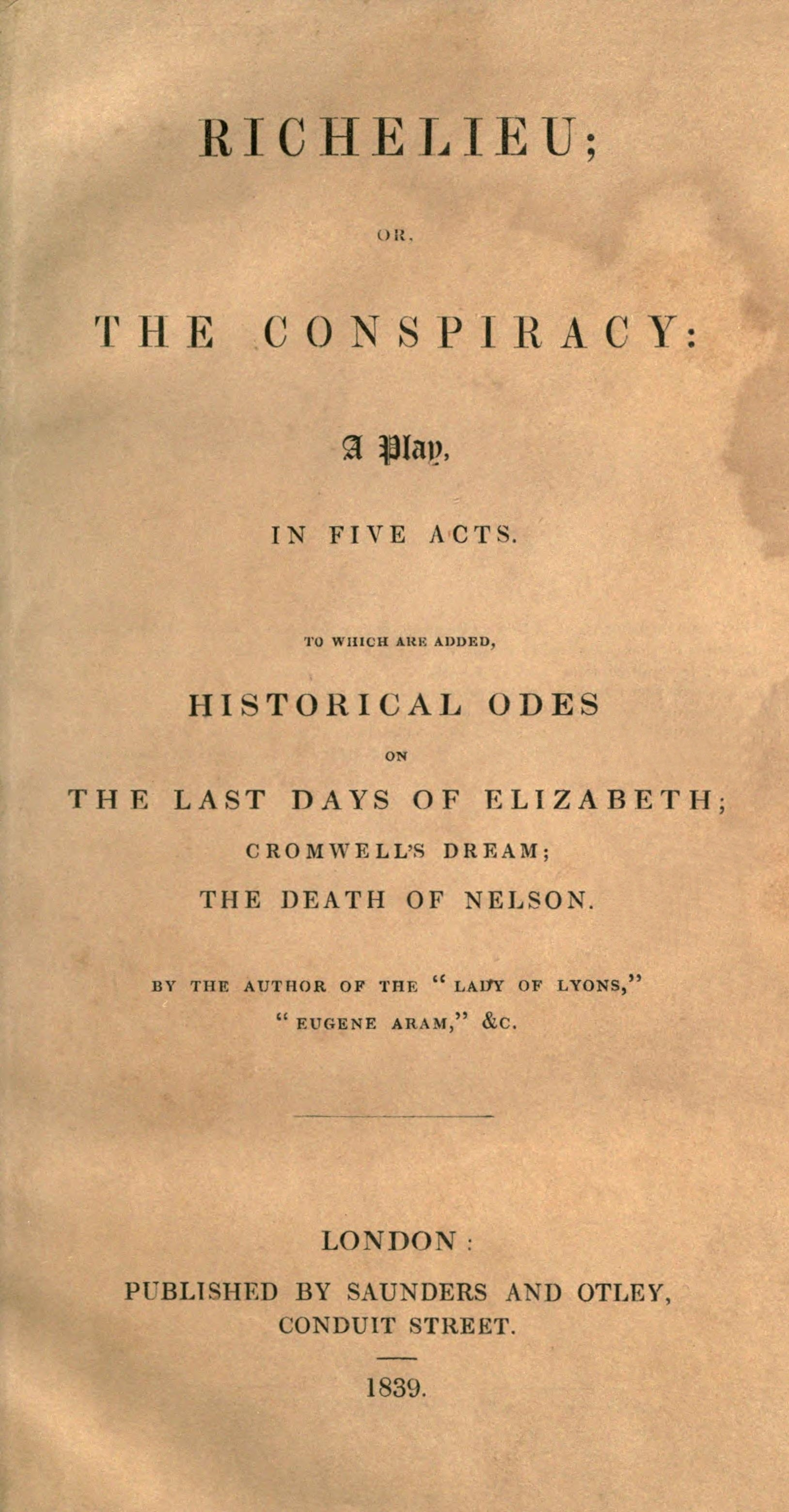 Richelieu by Lytton, 1st edition title page